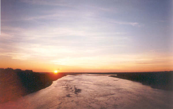 Sunshine on Parapeti River - Amanecer en el Río Parapetí